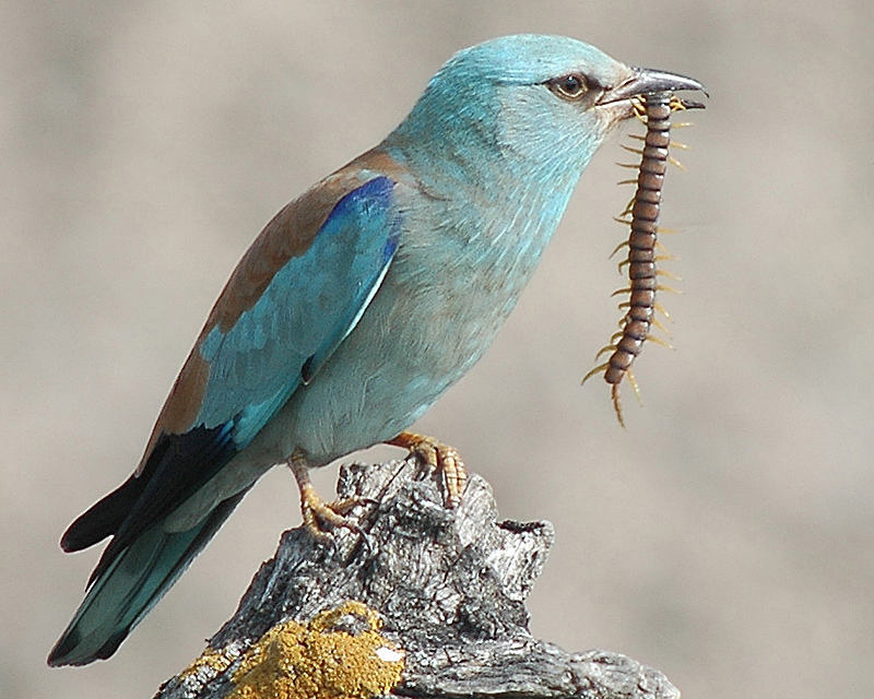 European Roller (Coracias garrulus) with a centipede (Scolopendra cingulata, order Scolopendromorpha) in Extremadura, Spain.